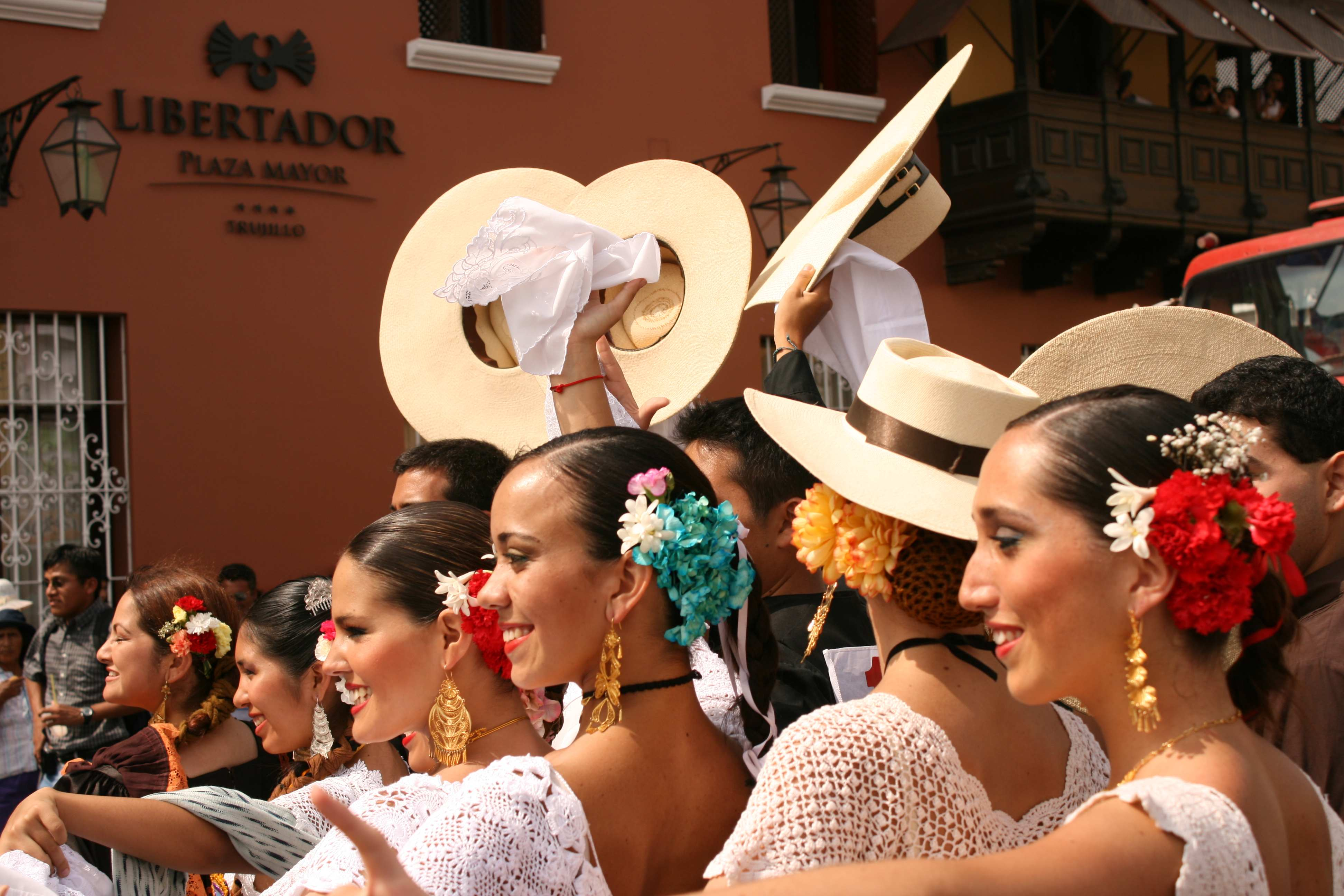 Beautiful marinera dancers in Trujillo festival celebrated in January every year. This is considered the most sensual dance in Peru and is the most representative of Trujillo city and one of the most typical dance from Peru.